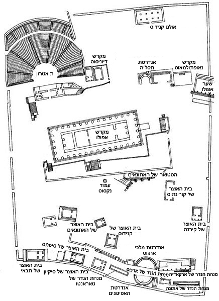 Recreación simplificada del plano del santuario de Delfos en Grecia.